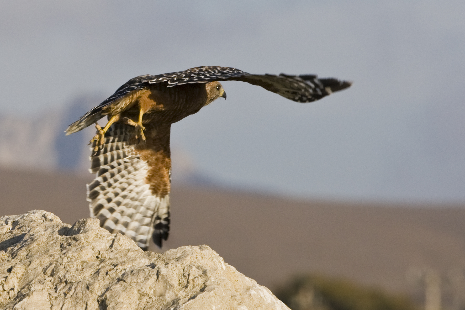 Red-shouldered Hawk (bird) (Buteo lineatus) in the Cloisters City Park in Morro Bay, CA